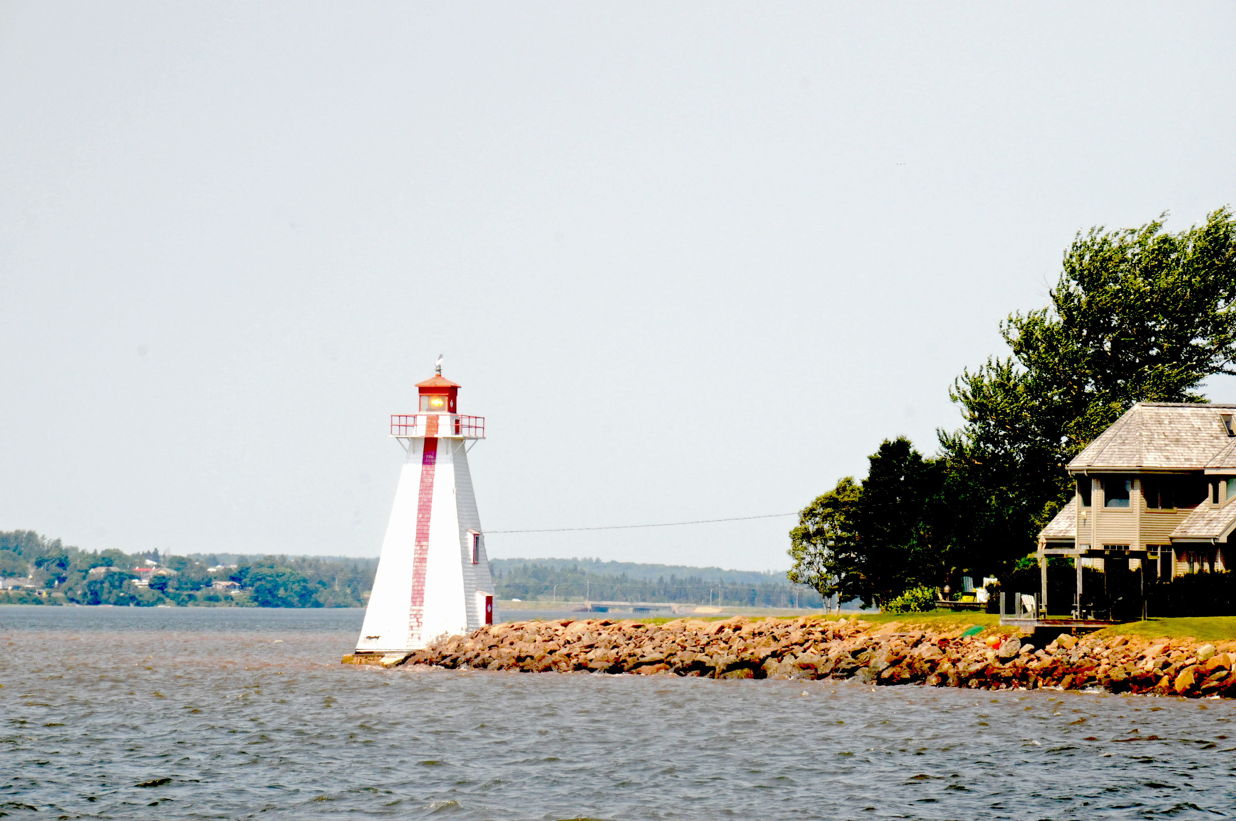 Brighton Beach Range Front lighthouse, Prince Edward Island, Canada